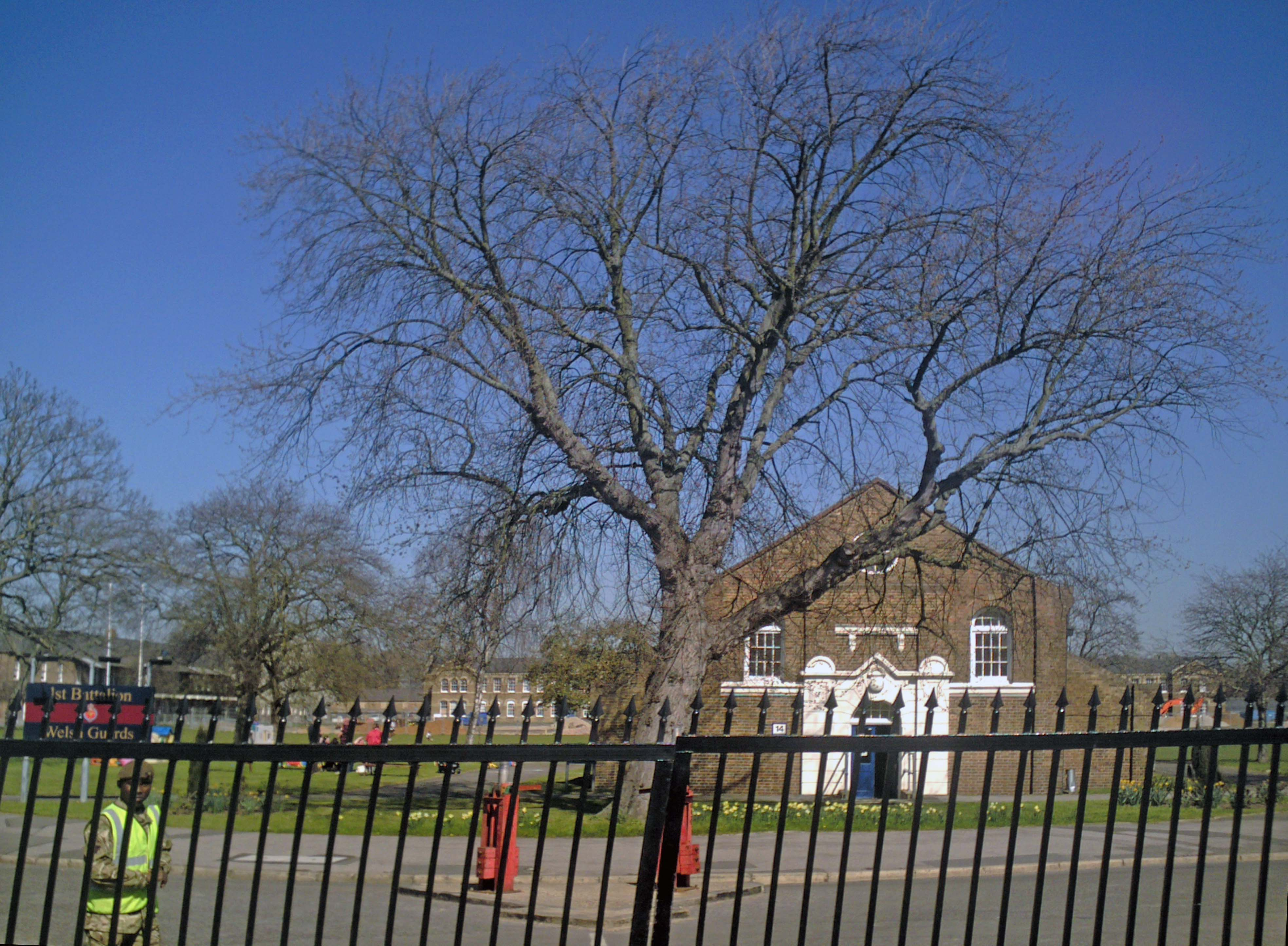 Hounslow Barracks entrance, on Beavers Lane